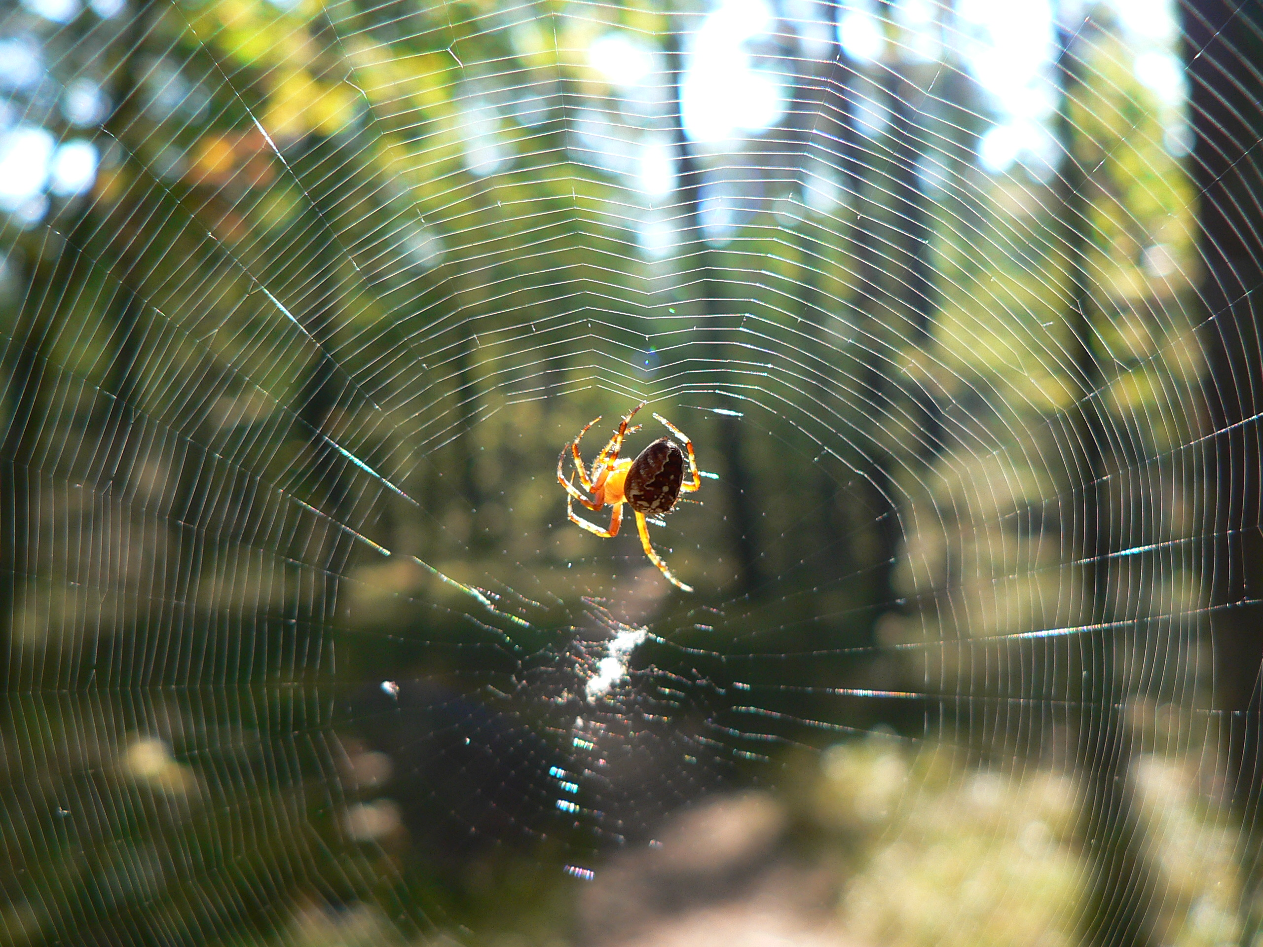 Spider web